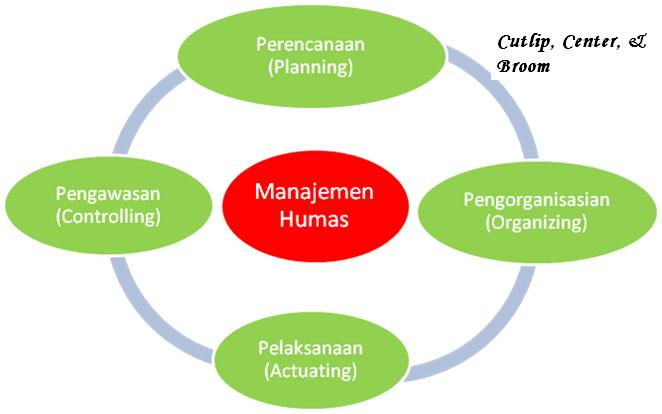 Garis besar tahapan dan ruang lingkup proses manajemen humas.